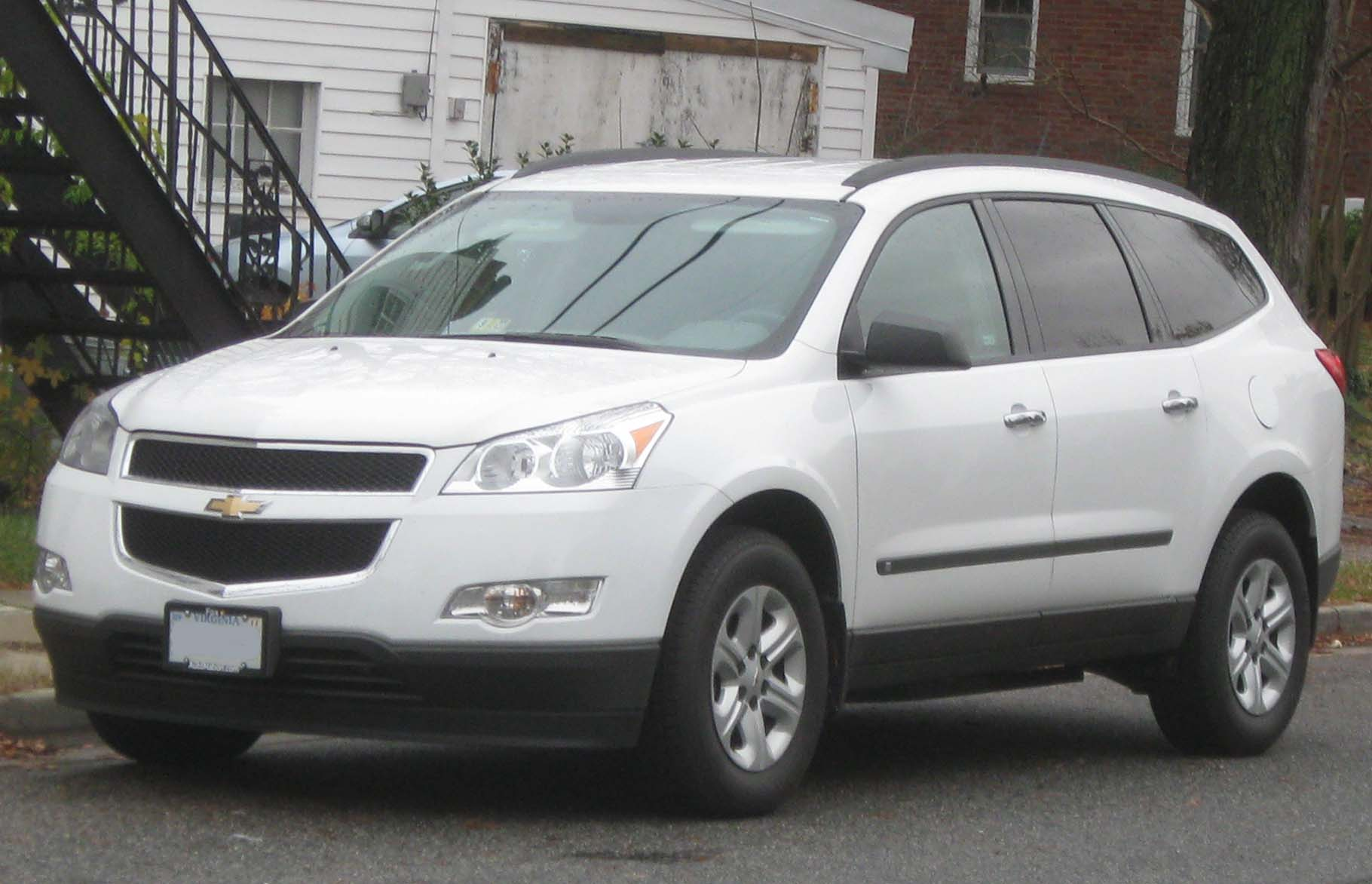 2009-2010 Chevrolet Traverse LS photographed in Laurel, Maryland, USA.